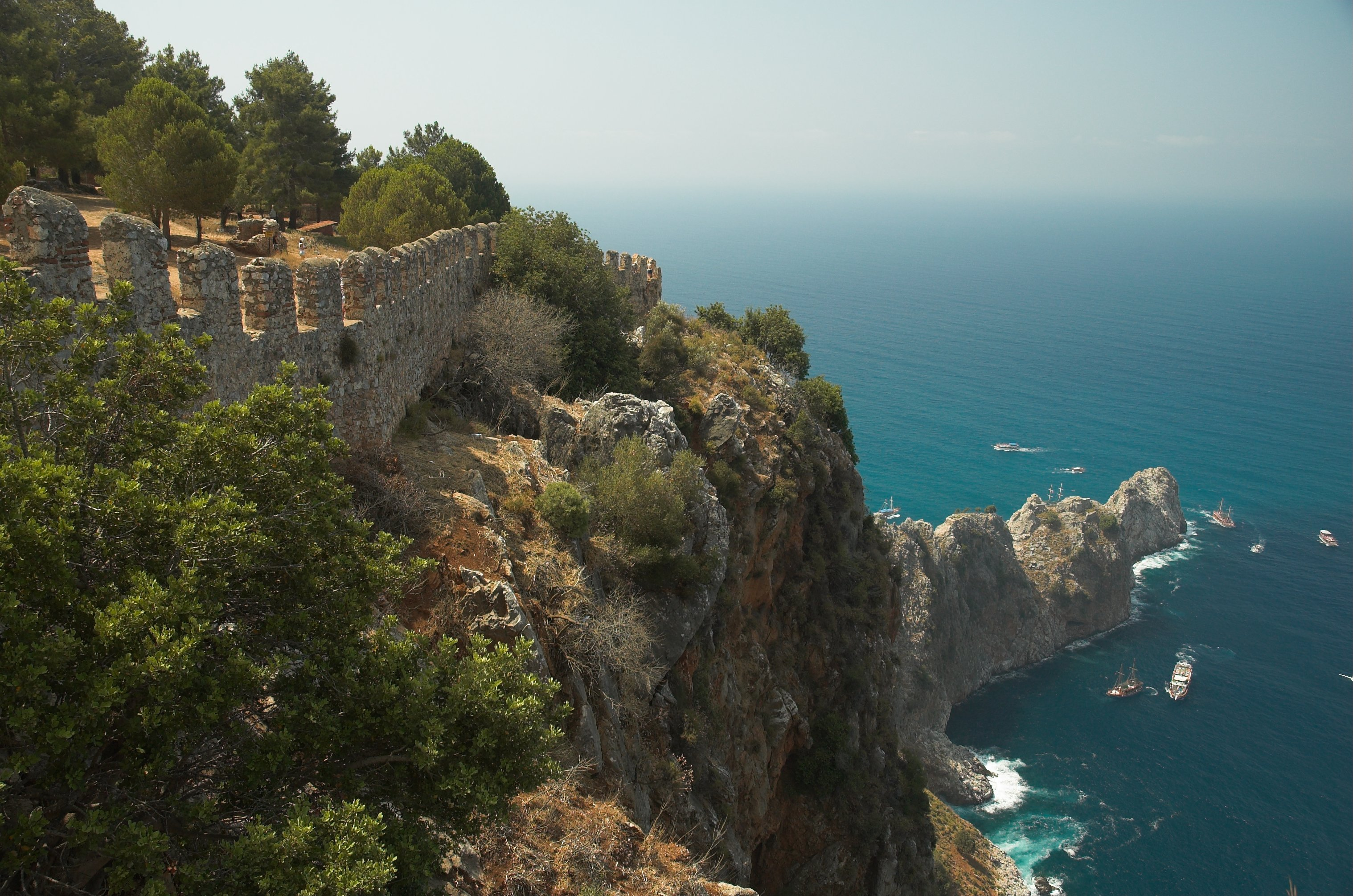 Small party ships and other vessels come to this beautiful scenery at the tip of the peninsula.